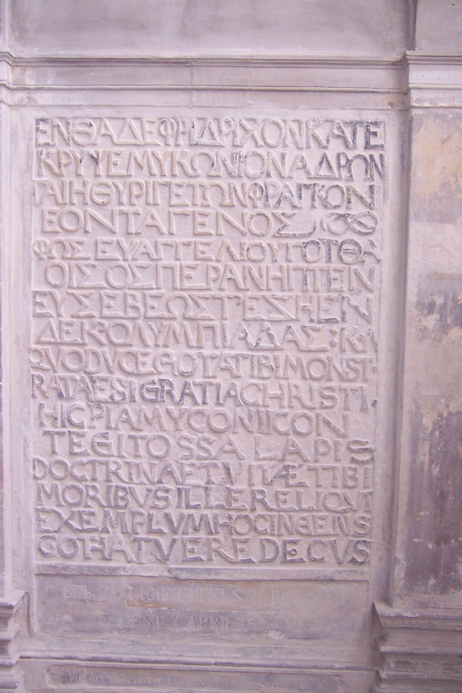 Gotha, Augustinerkirche, Epitaph for Friedrich Myconius († 1546)